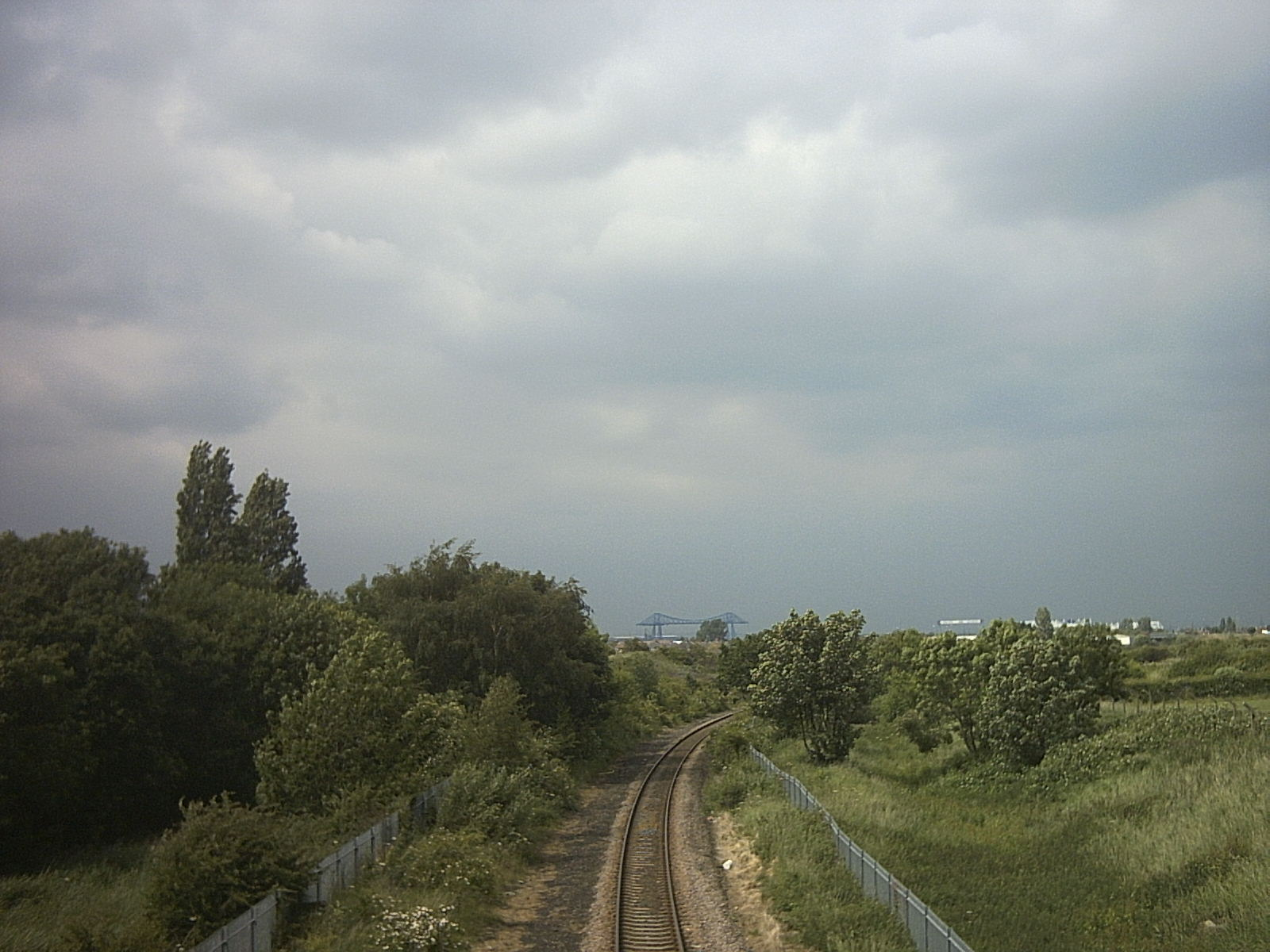 Esk Valley Train Line Berwick Hill Middlesbrough. 24-06-06 by myself (neil gray)